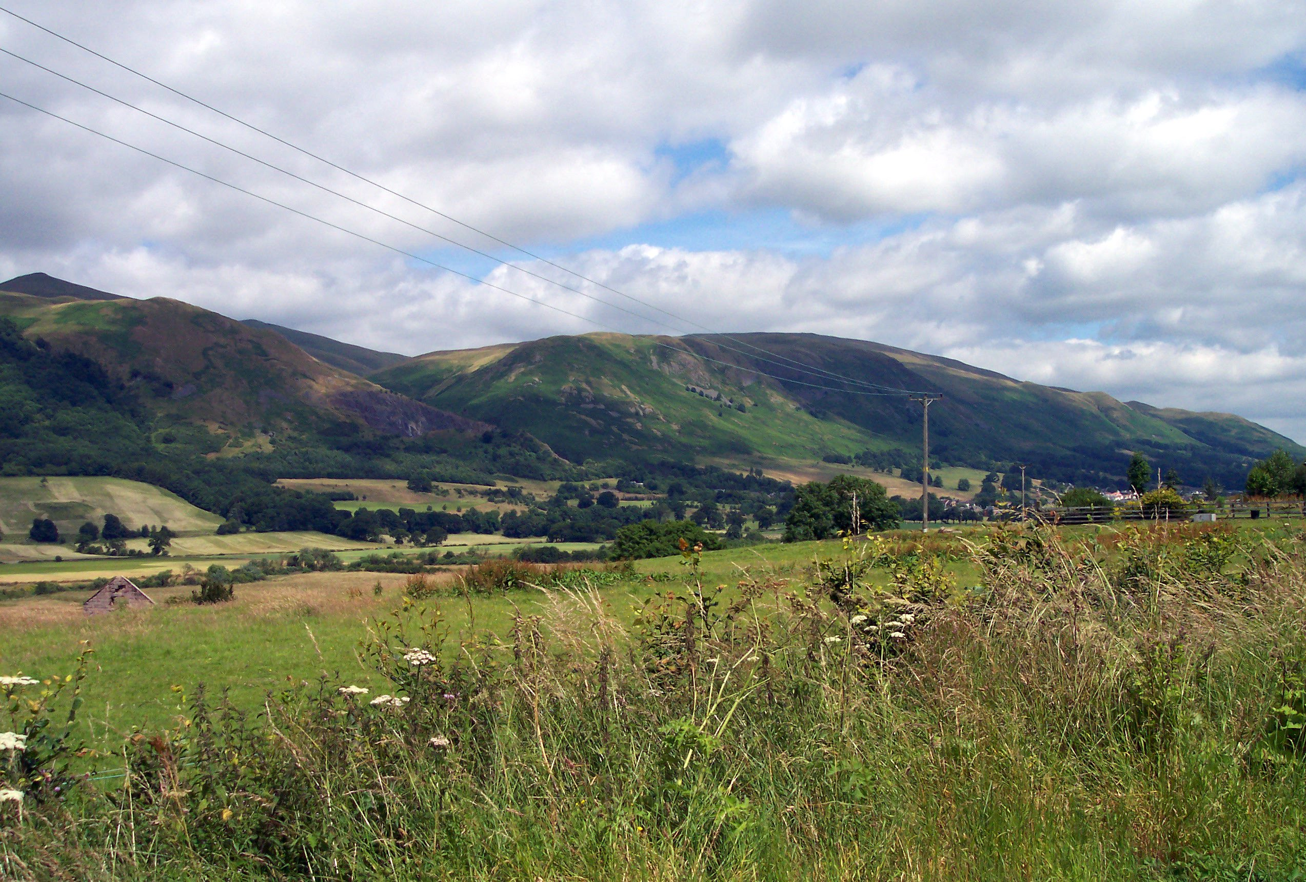 The Ochil Hills as seen from South-West of Tillicoultry. In the foreground, (L-R) Wood Hill (525m) and Elistoun Hill (497m). Behind them on the left of the photo, The Law (638m) can be seen rising above the two. Tillicoultry's Craigfoot Quarry can be seen just below the right slope of Wood Hill. Photo taken by myself, Hellinterface, July 2005.